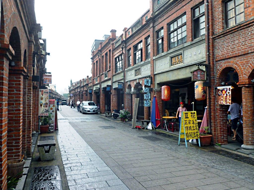 I took this photo on a trip to Taiwan in 2013.